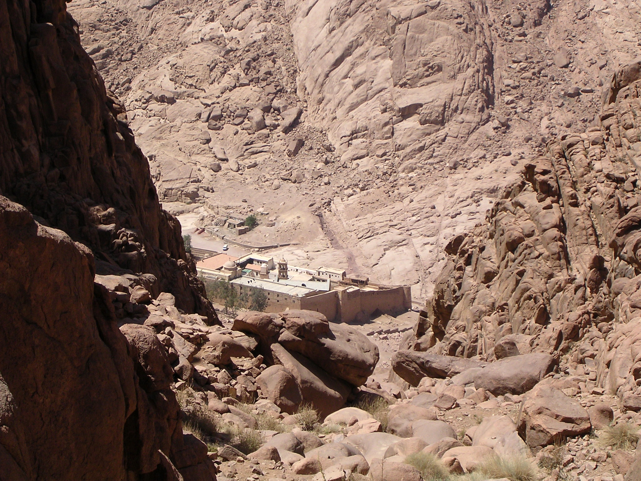 St. Catherine's monastery viewed from Mount Sinai, Egypt.